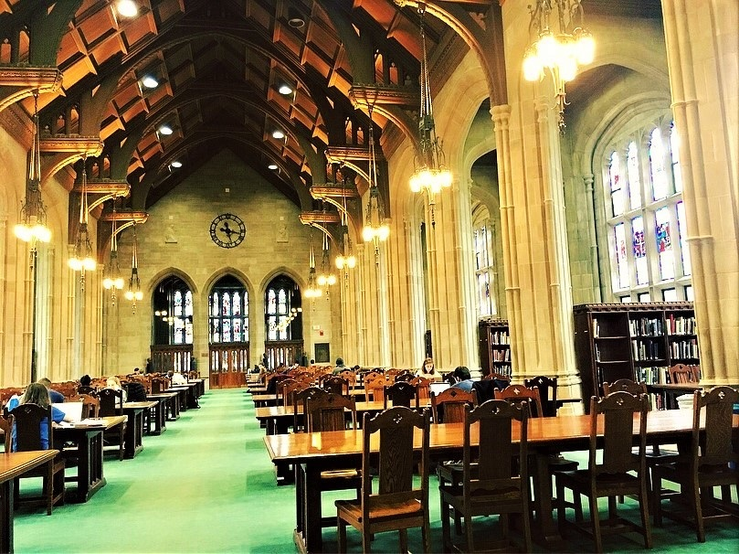 Gargan Hall in Bapst Library.